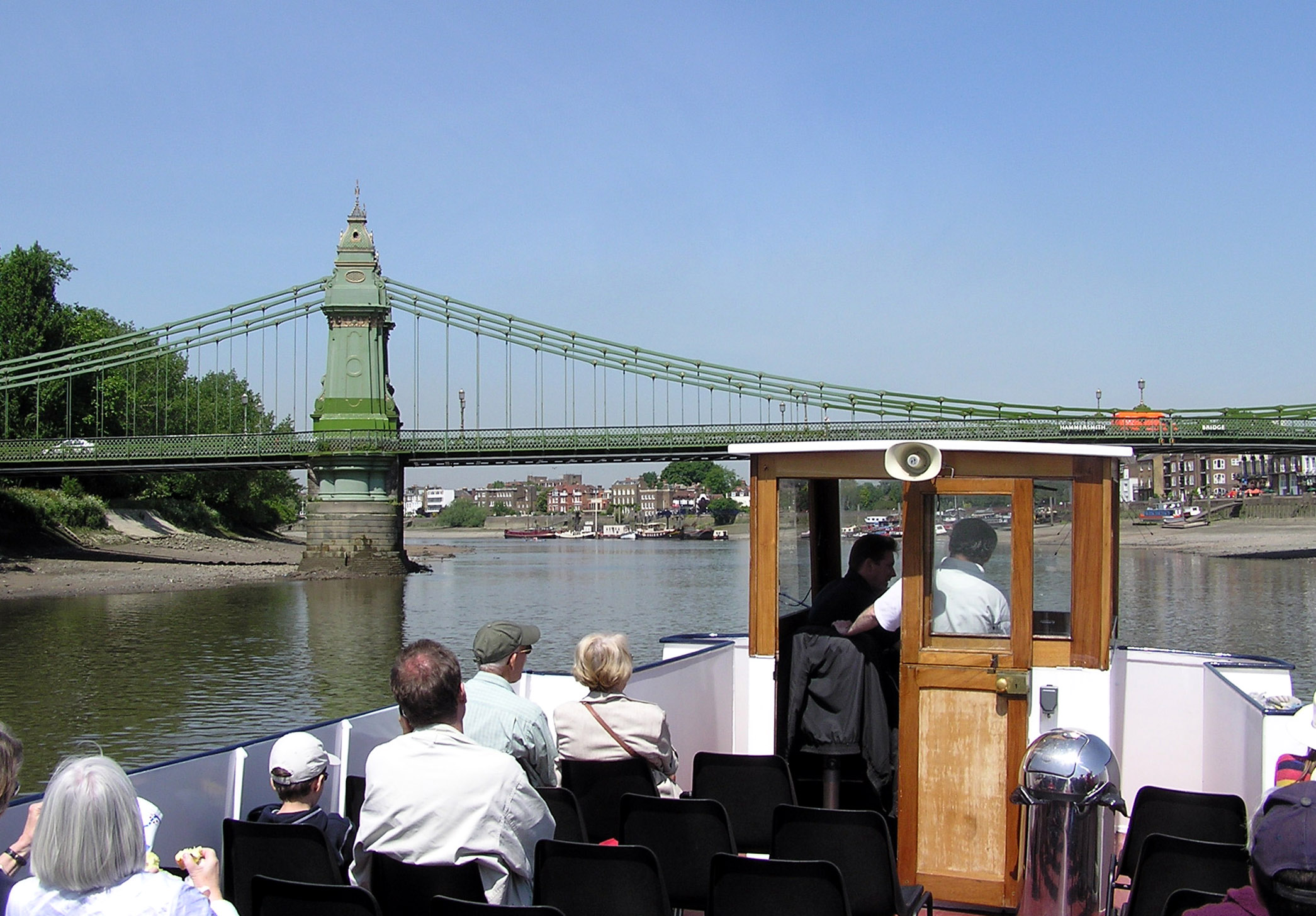 Hammersmith Bridge, seen from the Westminster to Kew tourist boat. Photographed by Adrian Pingstone in June 2005 and released to the public domain.